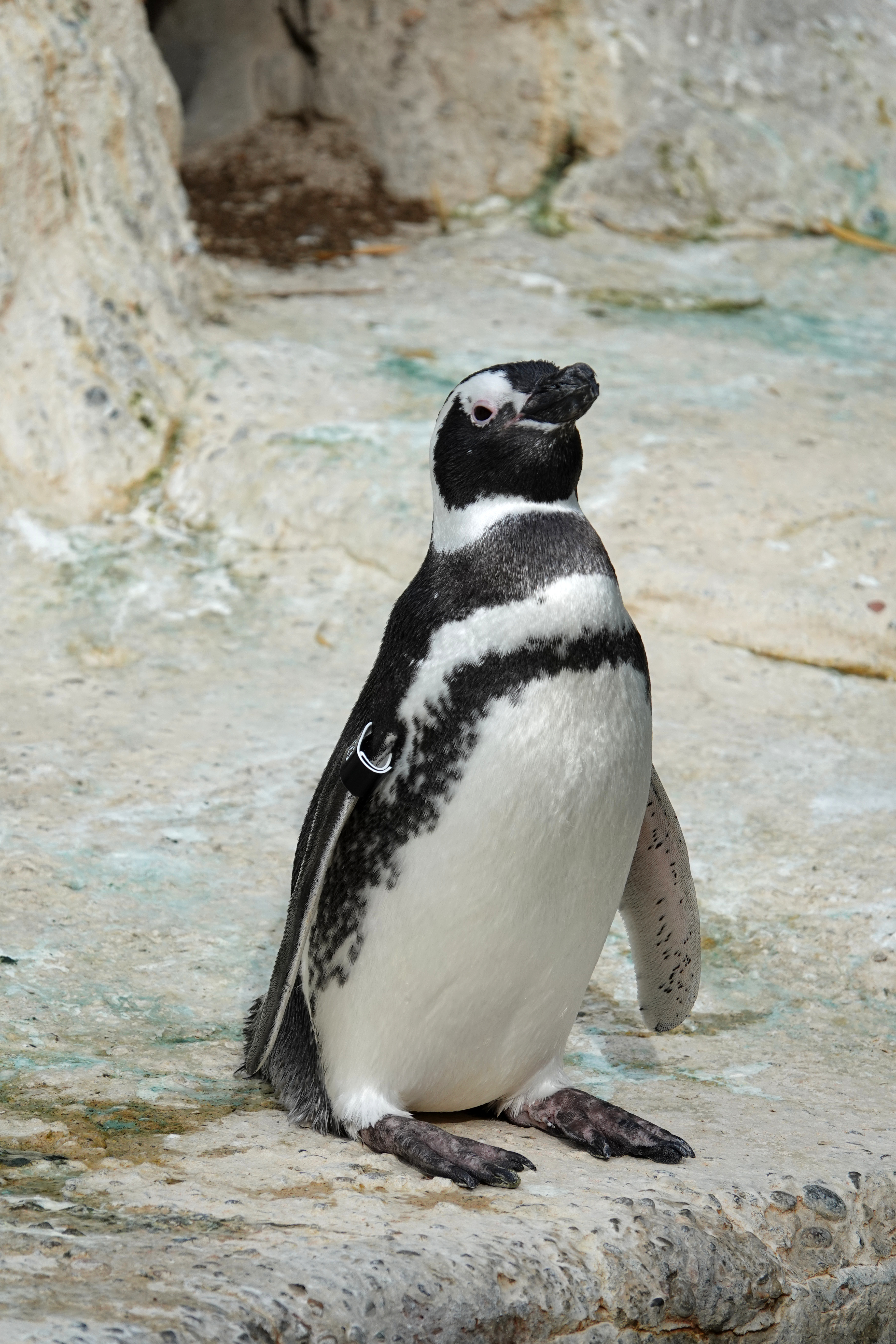 Picture of a Magellanic penguin (Spheniscus magellanicus) at San Francisco Zoo, USA.